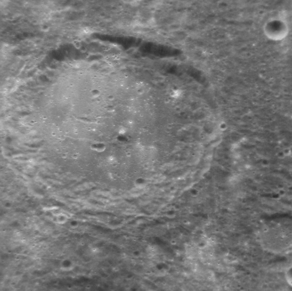 Ravel crater on Mercury. MESSENGER Narrow Angle Camera. North is to the left. Emission Angle: 31.0 Incidence Angle: 39.5 Latitude: -12.3 Longitude: 321.8 Phase Angle: 70.5